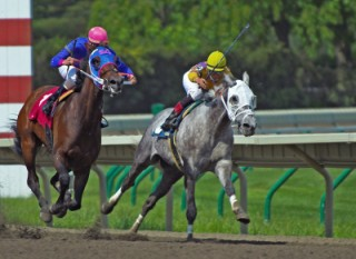 Monmouth Racetrack in New Jersey: #1 Darlington Guard (ridden by Joe Bravo) coming around the final turn following #3, a gray gelding named Beware the Heir (ridden by Jose Lezcano) on June 17, 2005 in Race 6 (claiming race) [1].